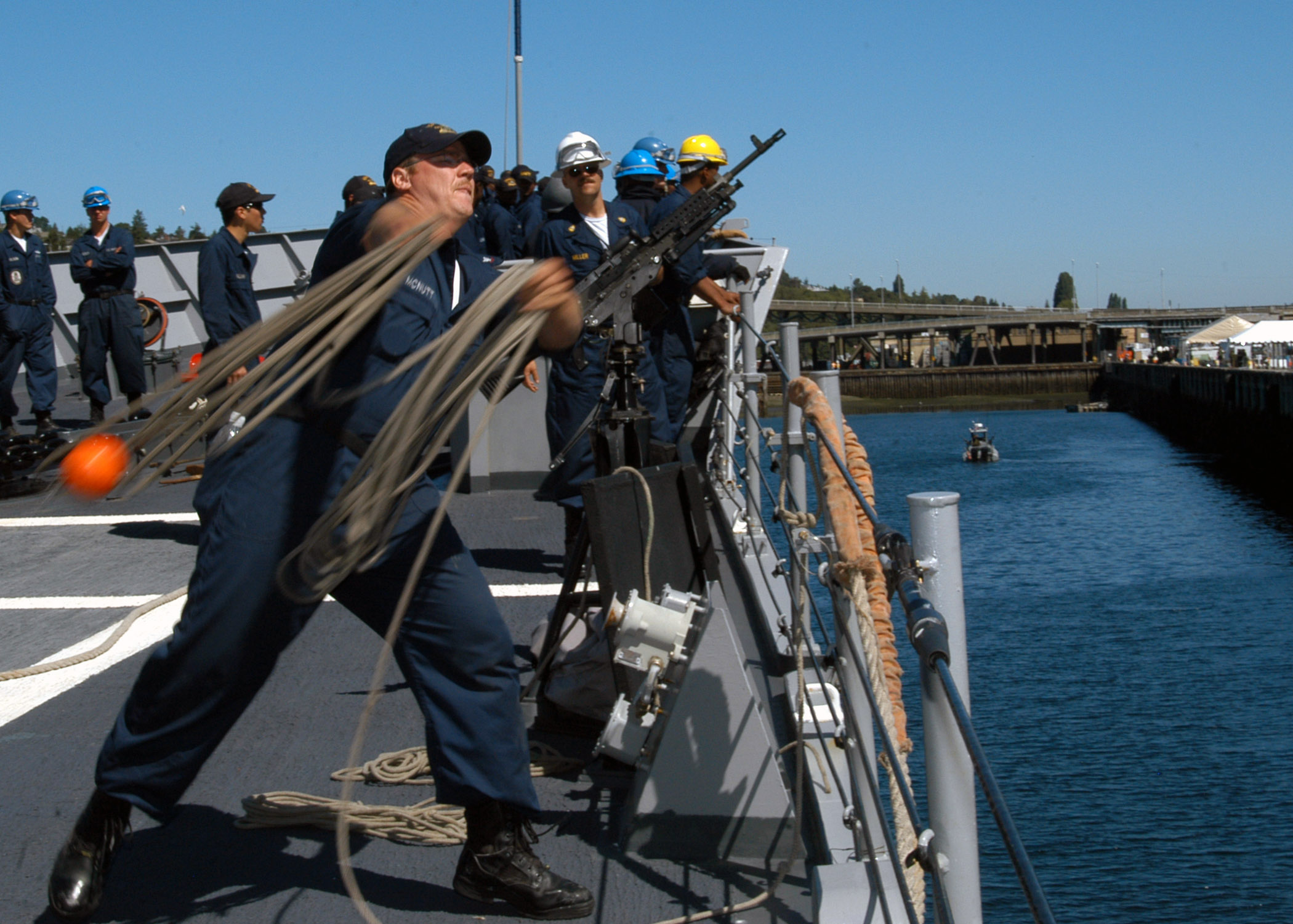 A Sailor from the guided-missile frigate USS Rentz (FFG 46) throws a heaving line to Pier 91 upon arrival to the Port of Seattle for Seattle Seafair 2007.